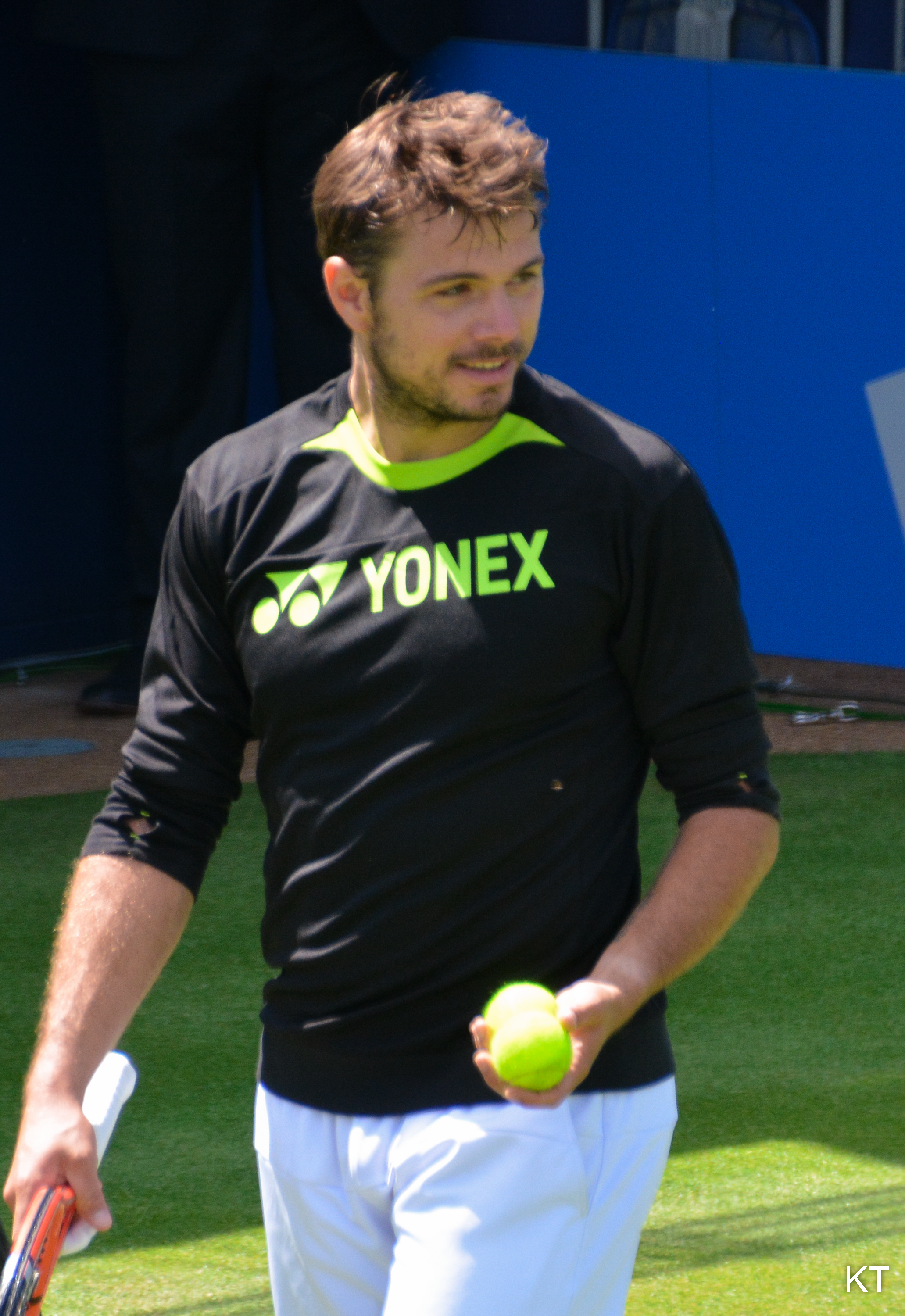 Practising with Jeremy Chardy. Aegon Championships, Queen's Club, June 2015.